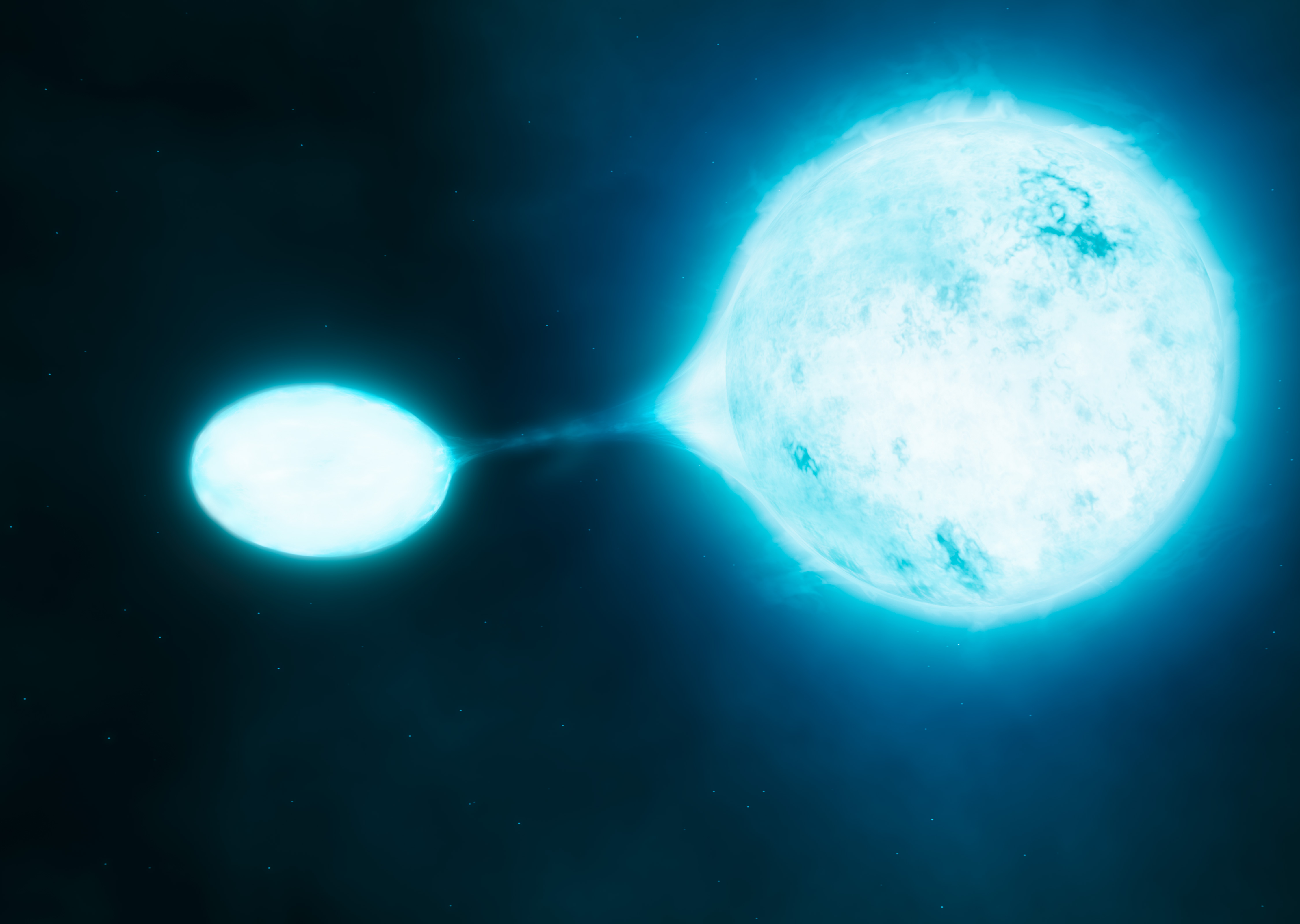 New research using data from ESO’s Very Large Telescope has revealed that the hottest and brightest stars, which are known as O stars, are often found in close pairs. Many of such binaries transfer mass from one star to another, a kind of stellar vampirism depicted in this artist’s impression.